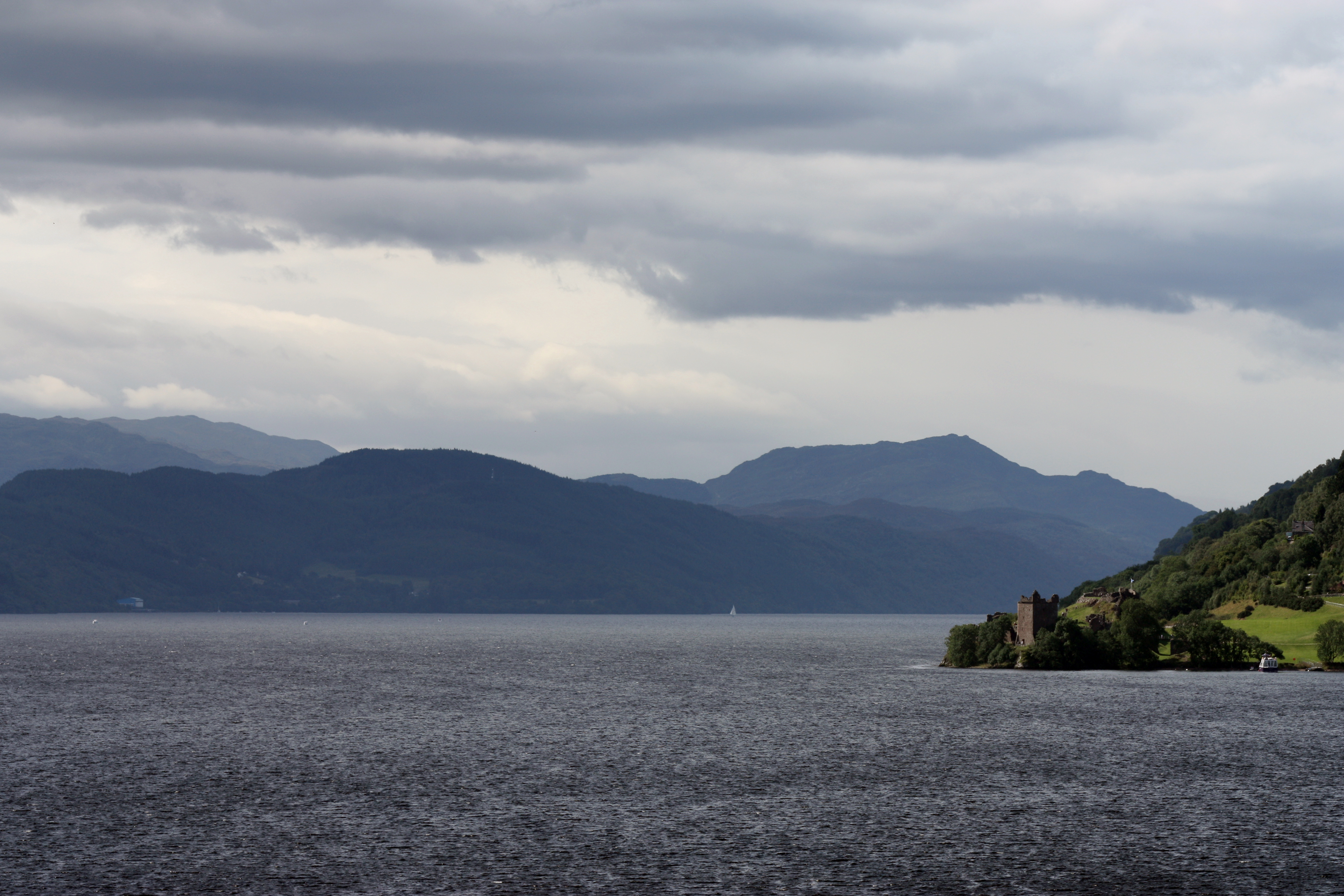 The Loch Ness and Urquhart Castle.